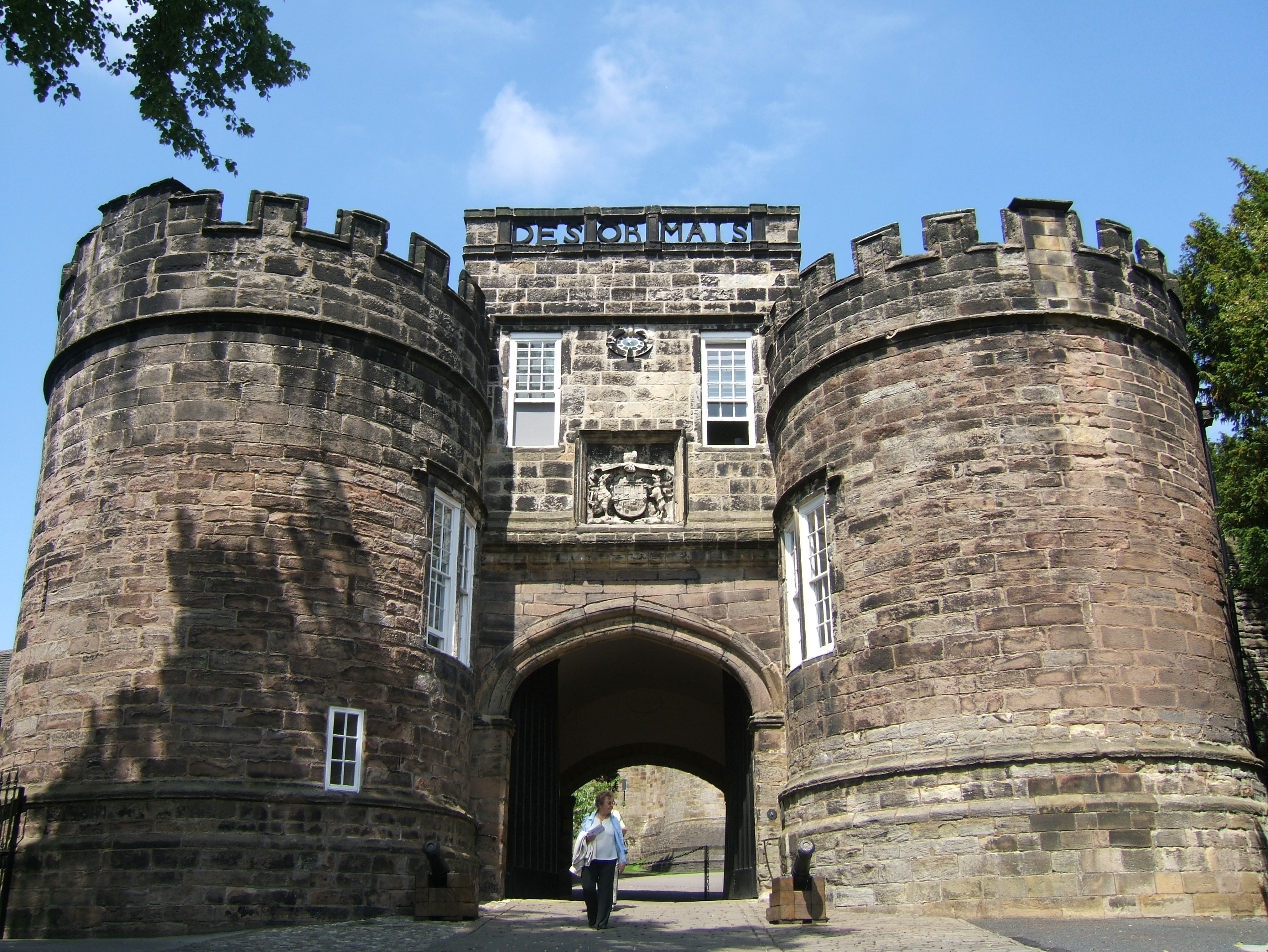 The main gate of Skipton Castle